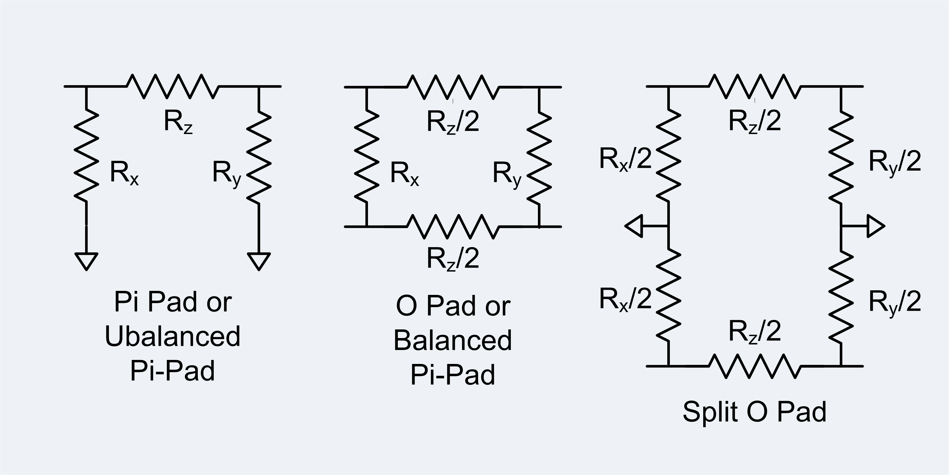 unbalanced, balanced and split-balanced variants of pi-pads